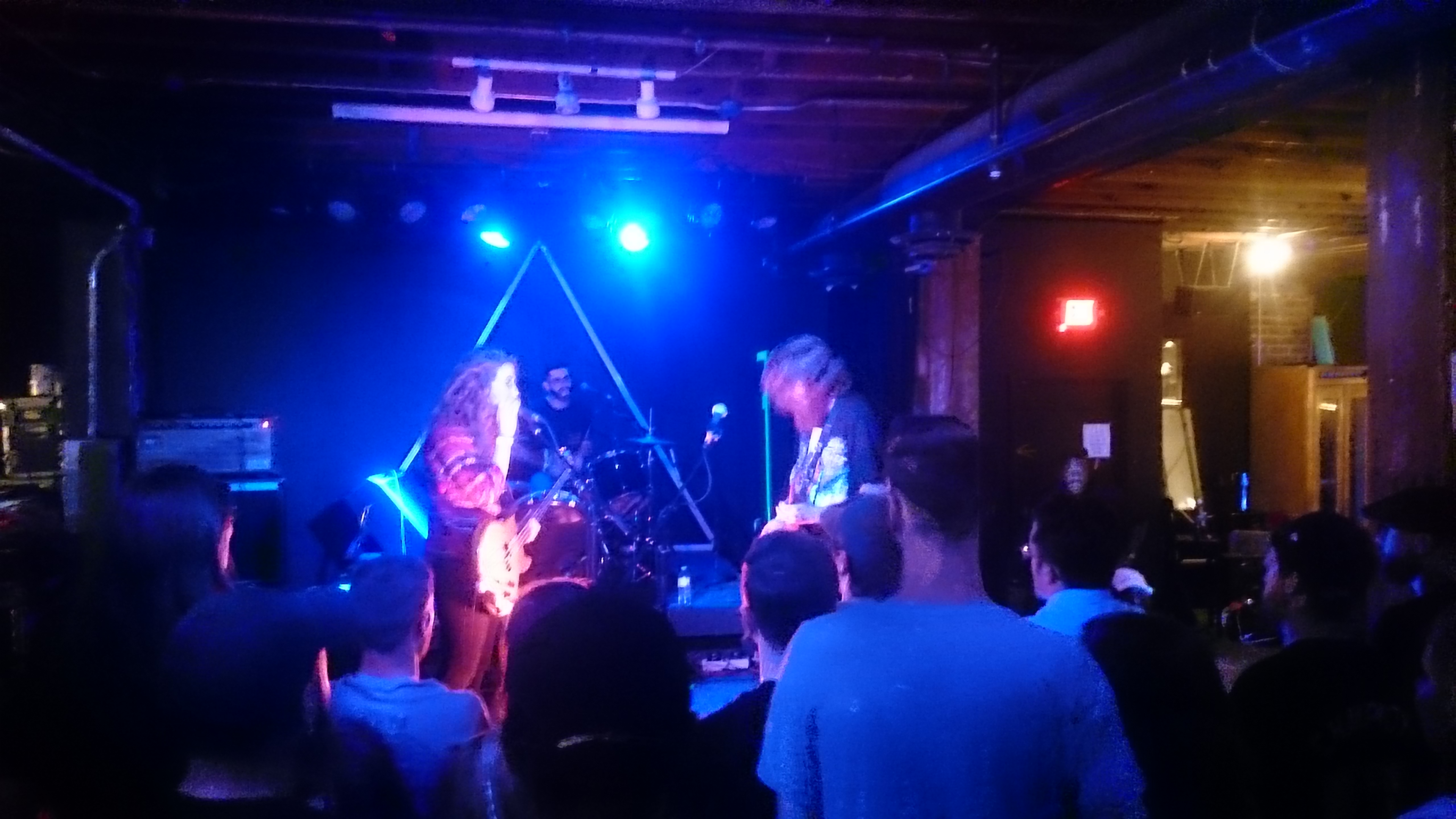 Comrades performing at The Canal Club in Richmond on June 16th, 2017 on a tour with Strawberry Girls